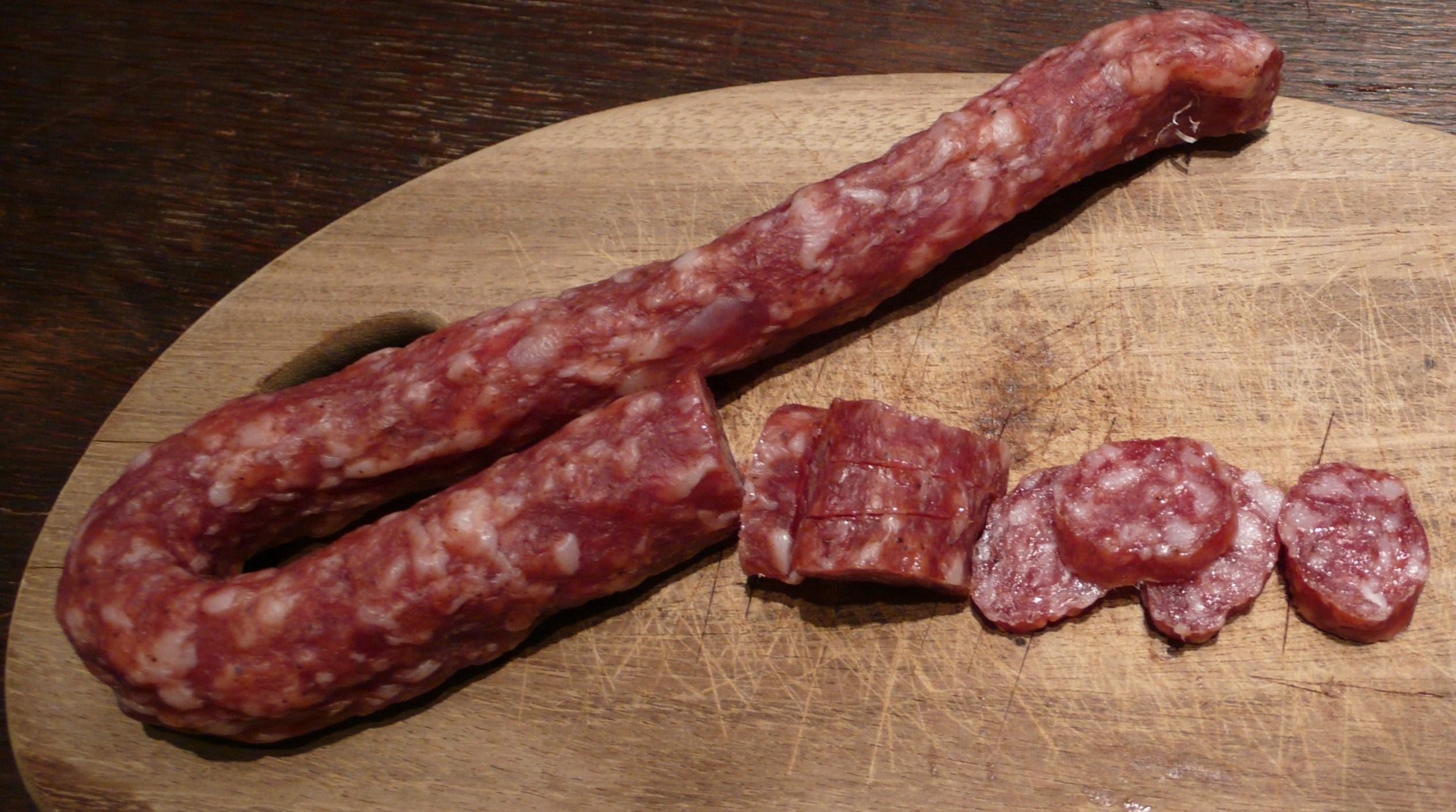 Mettwurst from Groningen in the northern Netherlands, seasoned with cloves.